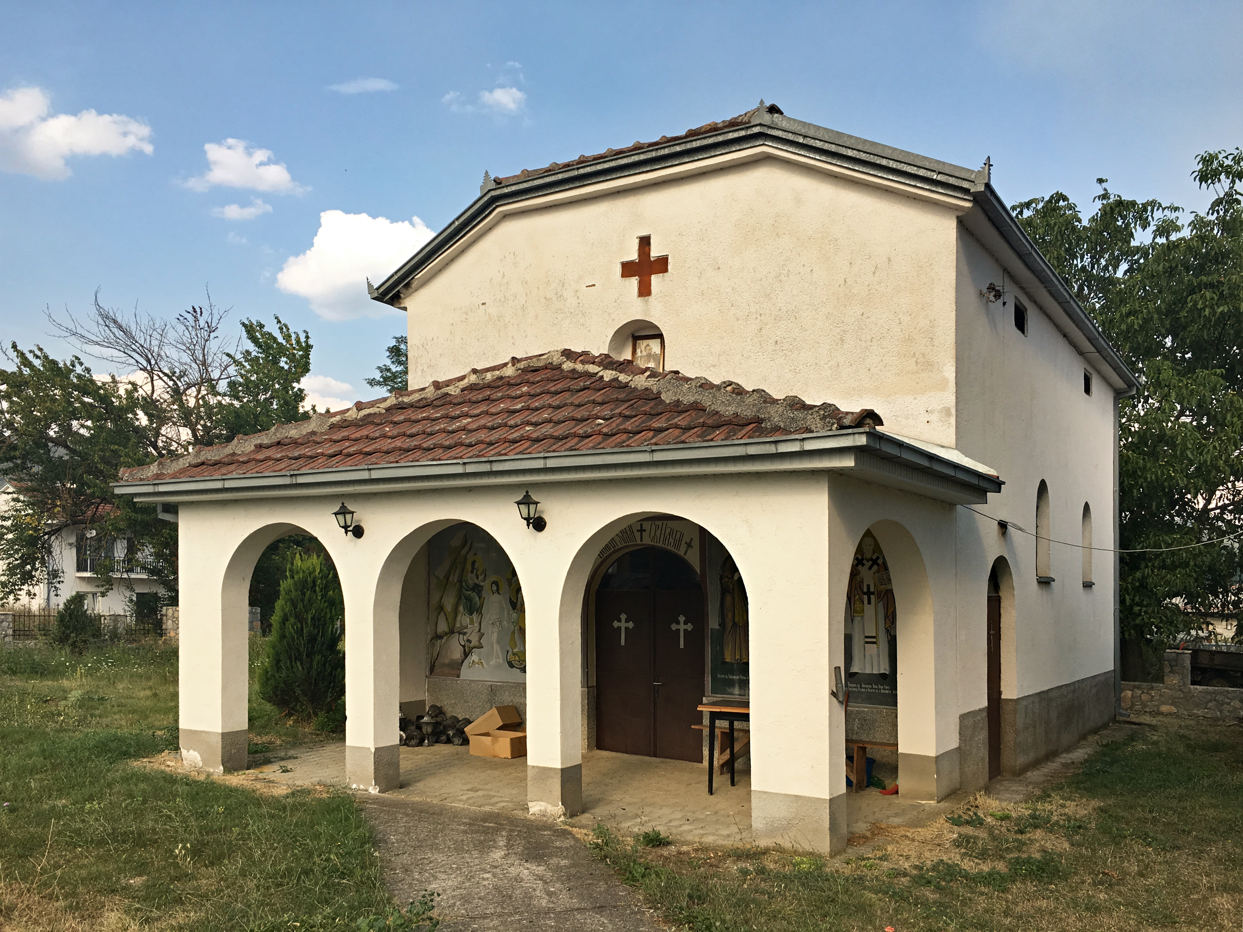 St. Naum of Ohrid Church in the village of Livoišta